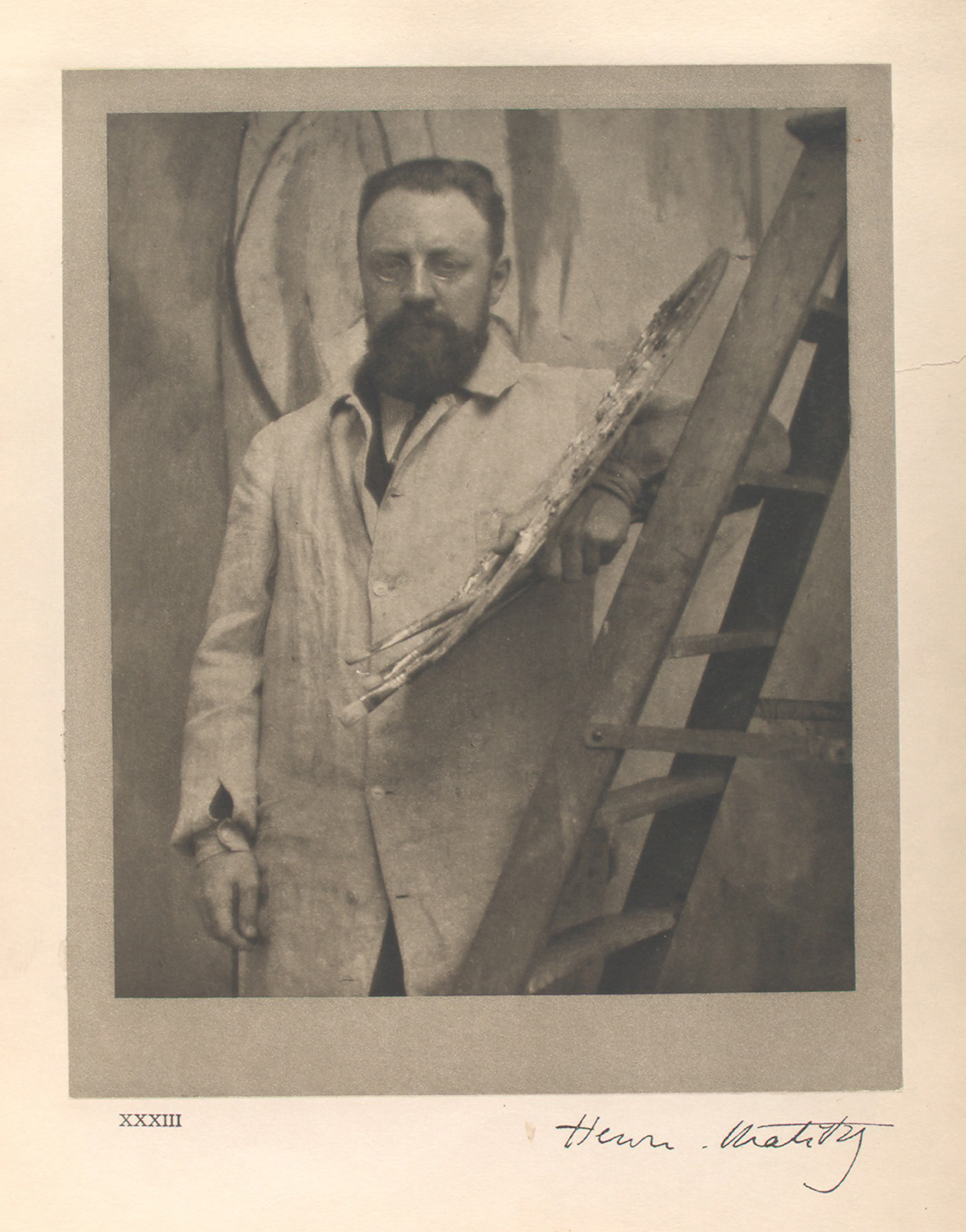 Henri Matisse, Paris, May 13th, 1913. In: Men of mark. (published 1913) Medium: Photogravures